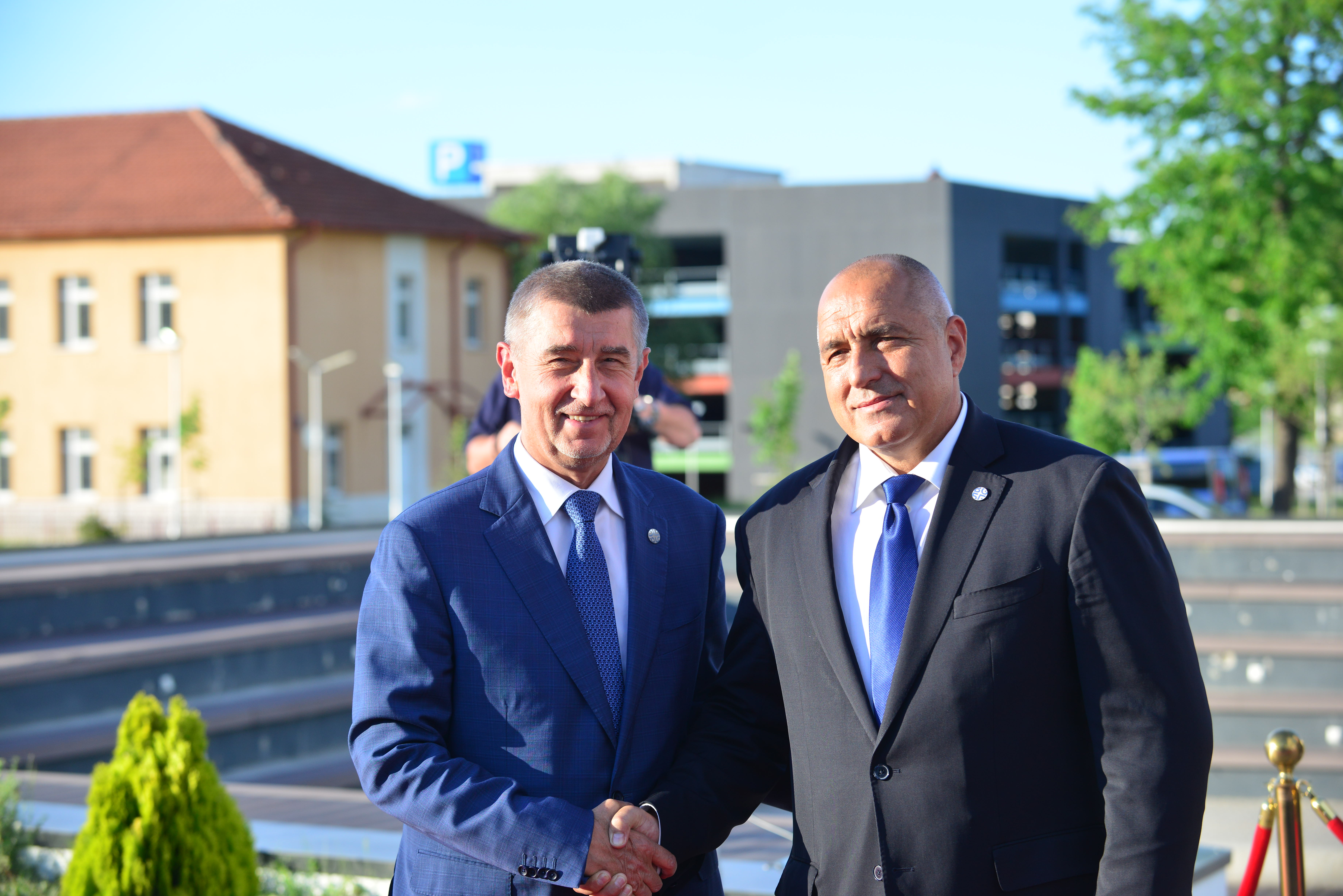 Andrej BABIŠ, Prime Minister of the Czech Republic (left); Boyko BORISSOV, Prime Minister of the Republic of Bulgaria (right) Photo: Yordan Simeonov (EU2018BG)